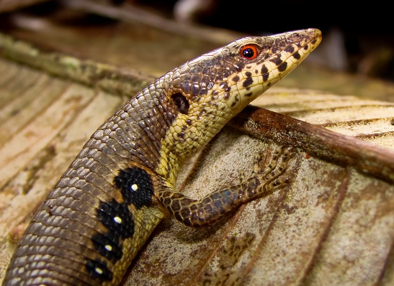 Anadia rombiphera